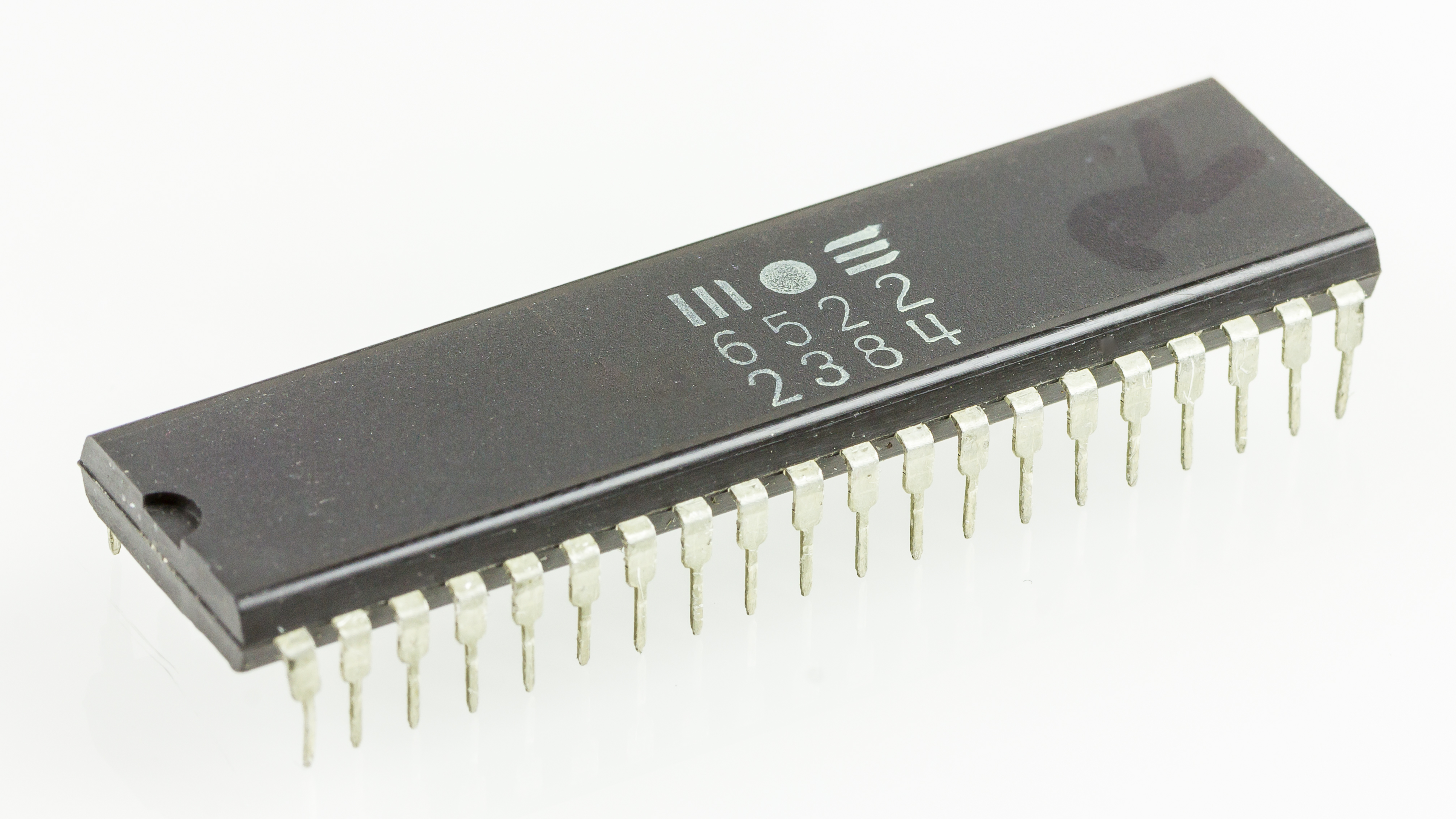 MOS Technology 6522